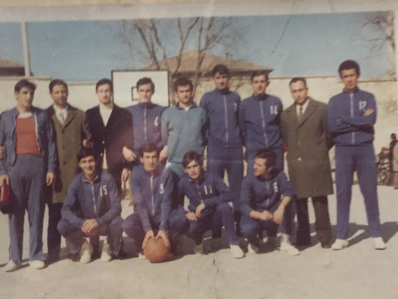 L'Olimpia Matera negli anni Settanta